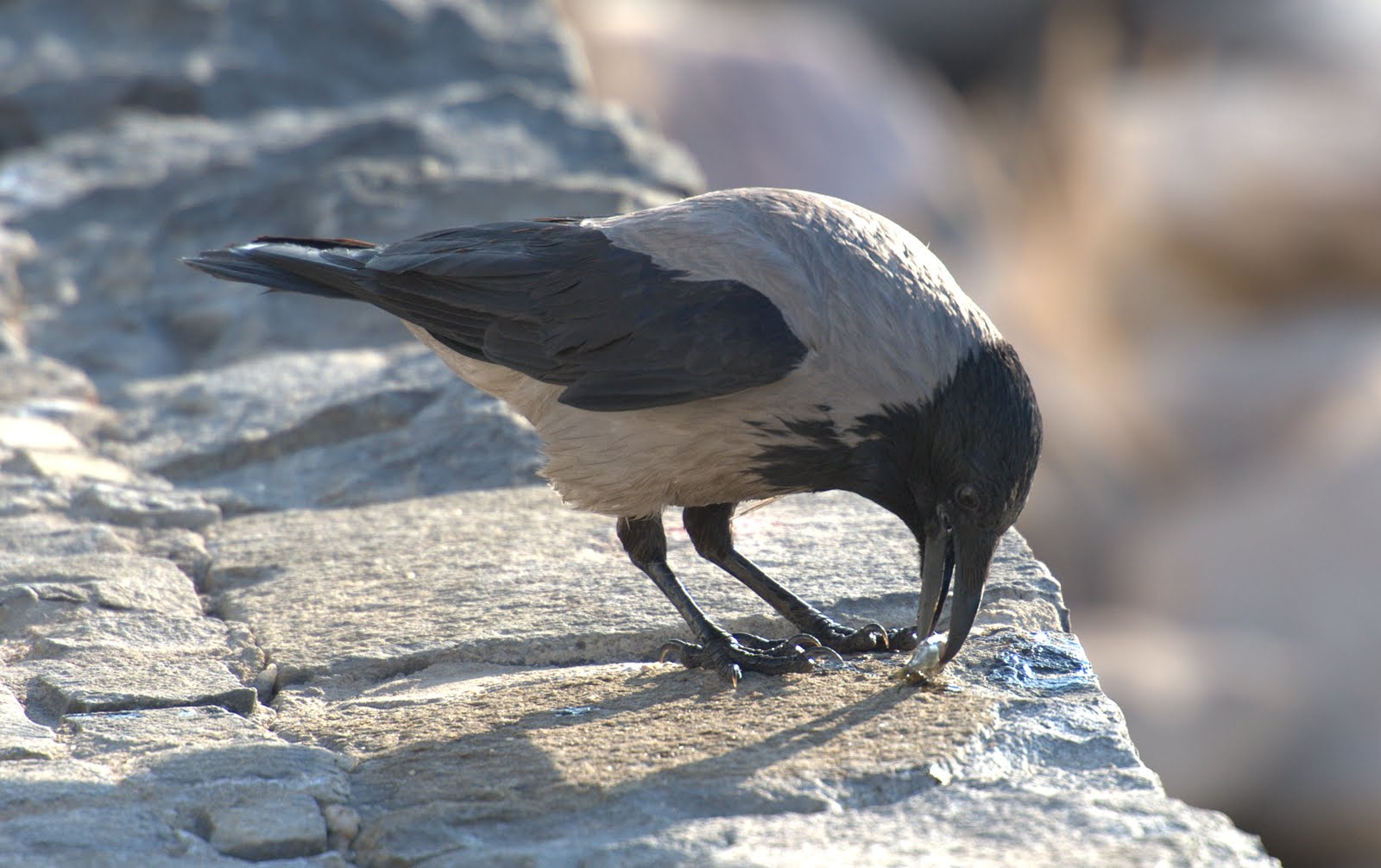 A Hooded Crow in Luxor, Egypt.